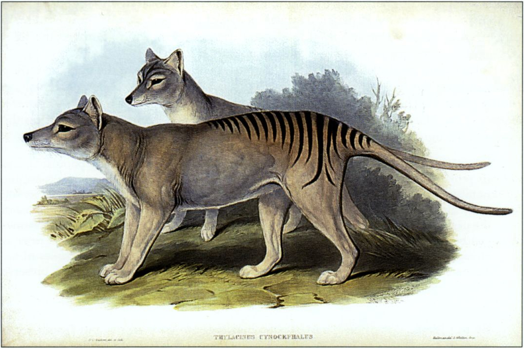 Described at the source as plate 5 of Gould's The Mammals of Australia, the listing that work introduction refers to Vol. I. Pls. 53 & 54. It shows what is regarded as the most famous and reproduced image of the then extant species Thylacinus cynocephalus.